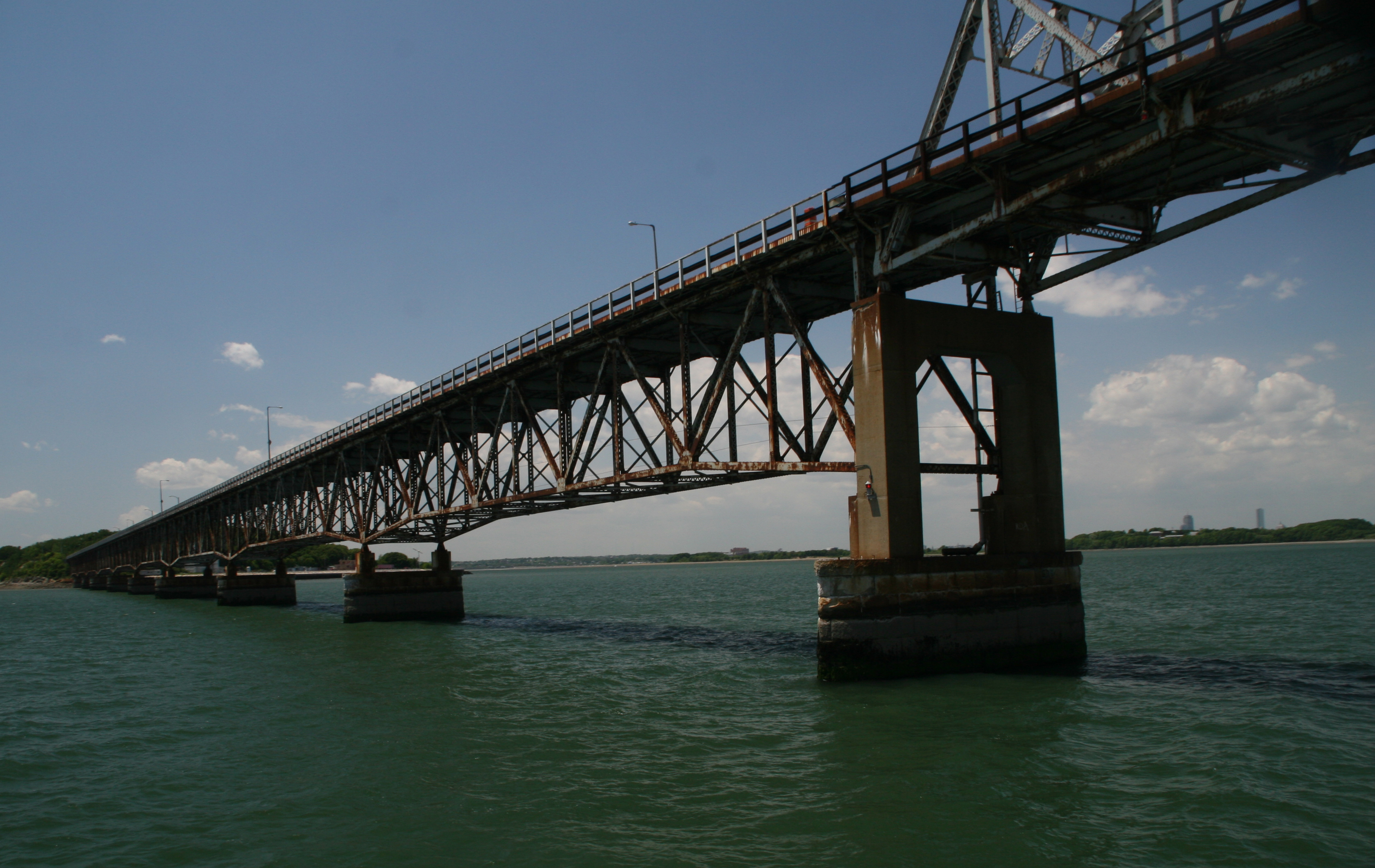 The Long Island Bridge in May 2009